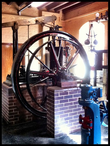 Backstage Pass tour at Derby Museums